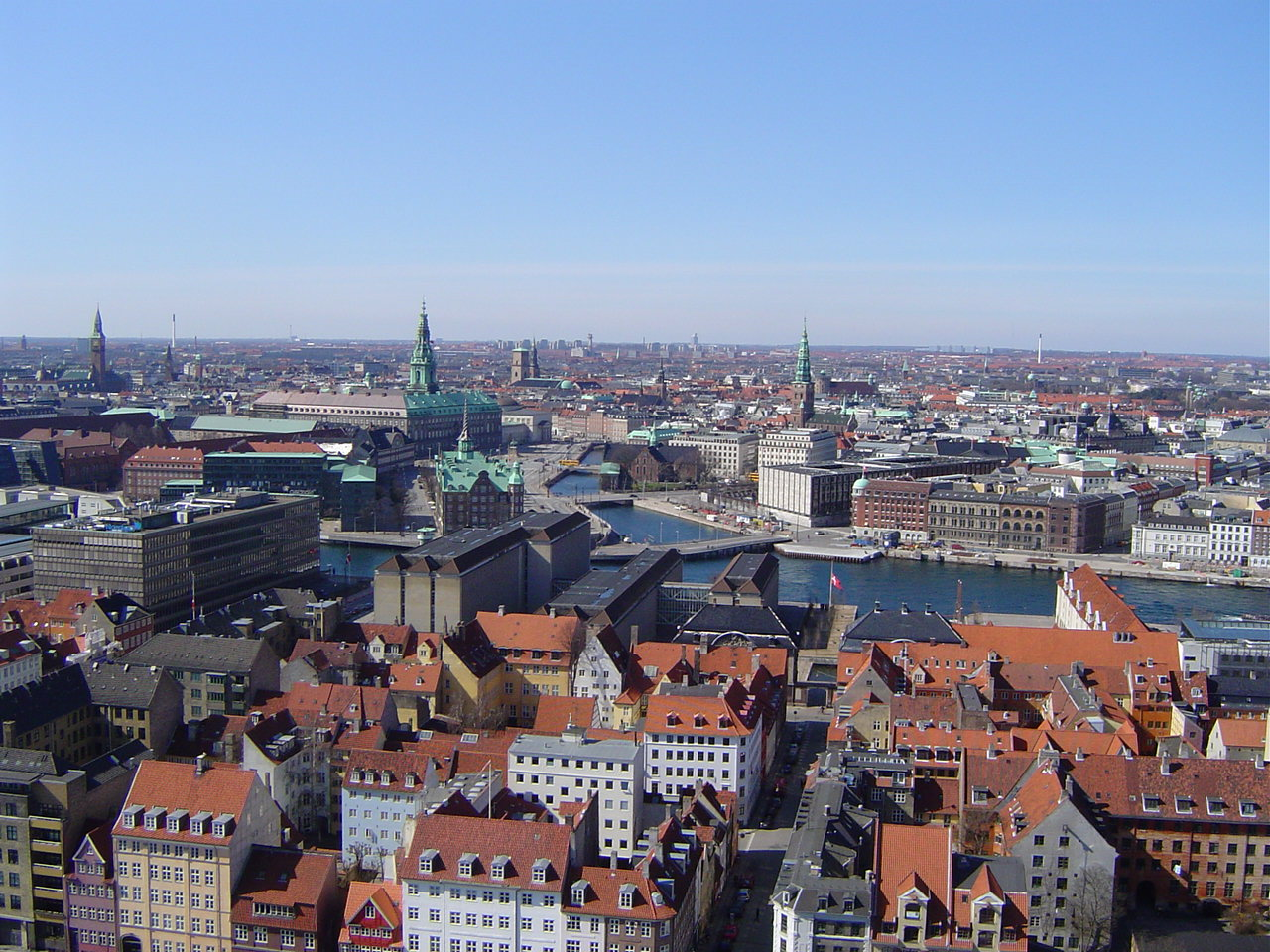 Views of the inner city of Copenhagen